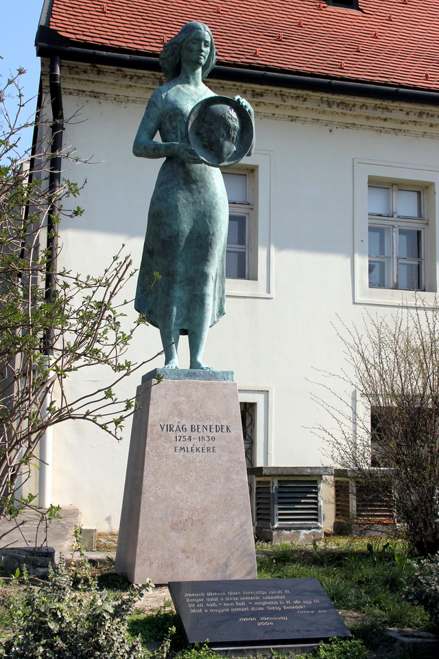 Monument of Benedek Virág by sculptor Pál Pátzay, erected in 1971 near the place where the poet lived. A slender female bronze figure is holding a tondo in her hands with the portrait of the poet. Location: nr. 10 Apród utca, Budapest, Tabán, District I., Hungary.